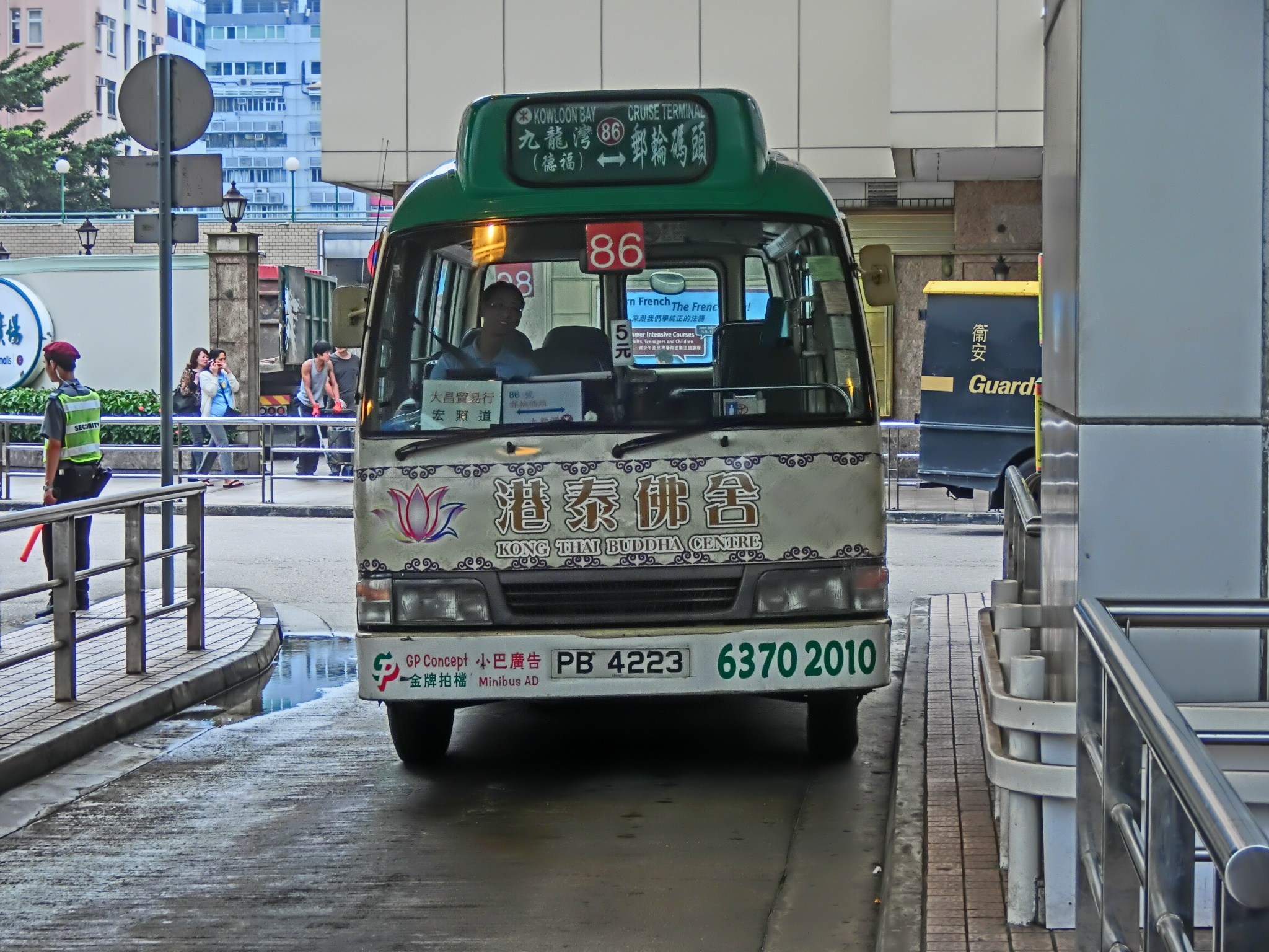 Public Light Bus route 86 stop sign, Telford Plaza, Kowloon Bay, Hong Kong